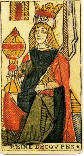 An original card from the tarot deck of Jean Dodal of Lyon, a classic Tarot of Marseilles deck which dates from 1701-1715.